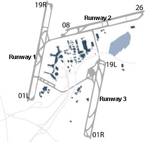 Runways, Arlanda Airport.